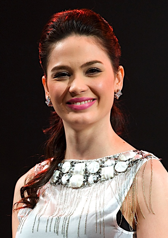 Kristine Hermosa at the Star Magic Concert Tour in Ontario, Canada last June 27, 2009.